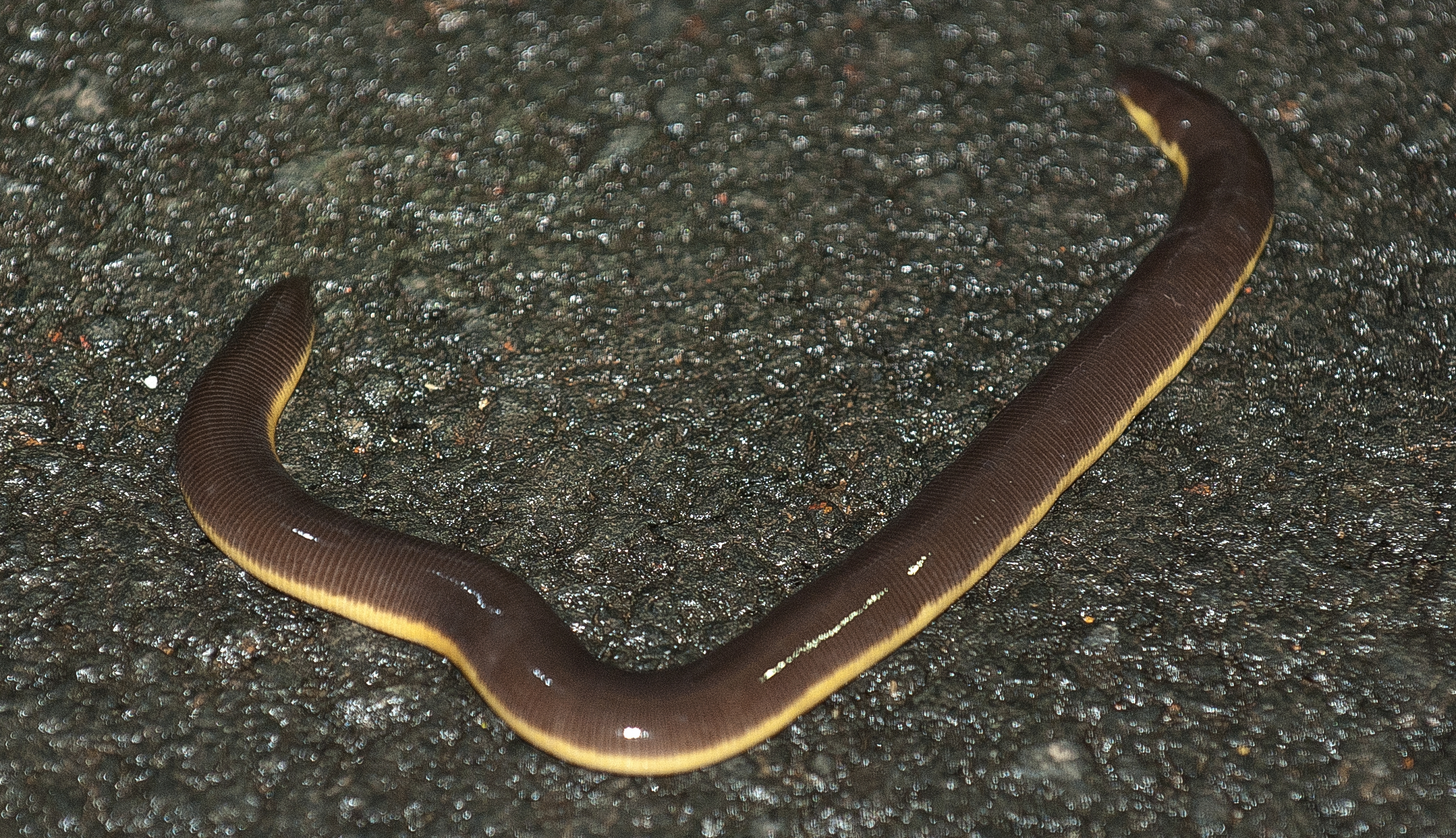 Ichthyophis beddomei, sometimes called Beddome's caecilian, is a species of caecilian in the family Ichthyophiidae. Its body is dark violet-brown, becoming light brown ventrally. There is a yellow lateral stripe from head to tail tip. Upper lip and lower jaw also yellow in colour. The stripe becomes slightly wider at the neck. Eyes are distinct. Tentacles placed very close to the lip and almost equidistant from eye and nostril. Nostrils at the tip of the snout, but visible from above. The upper jaw slightly overhangs the lower jaw. This species is distributed widely in the Western Ghats.